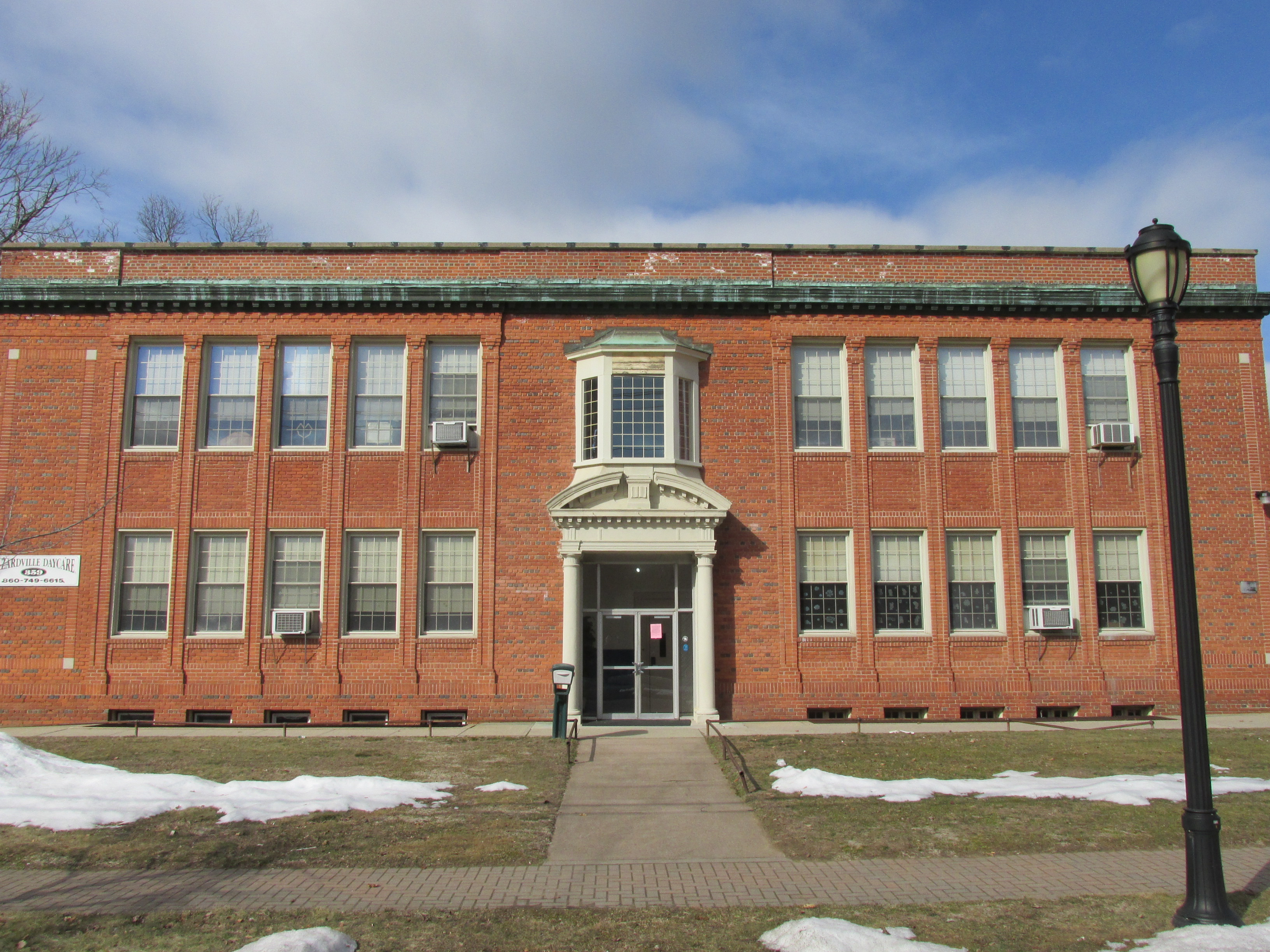 Town Hall, Hazardville Connecticut